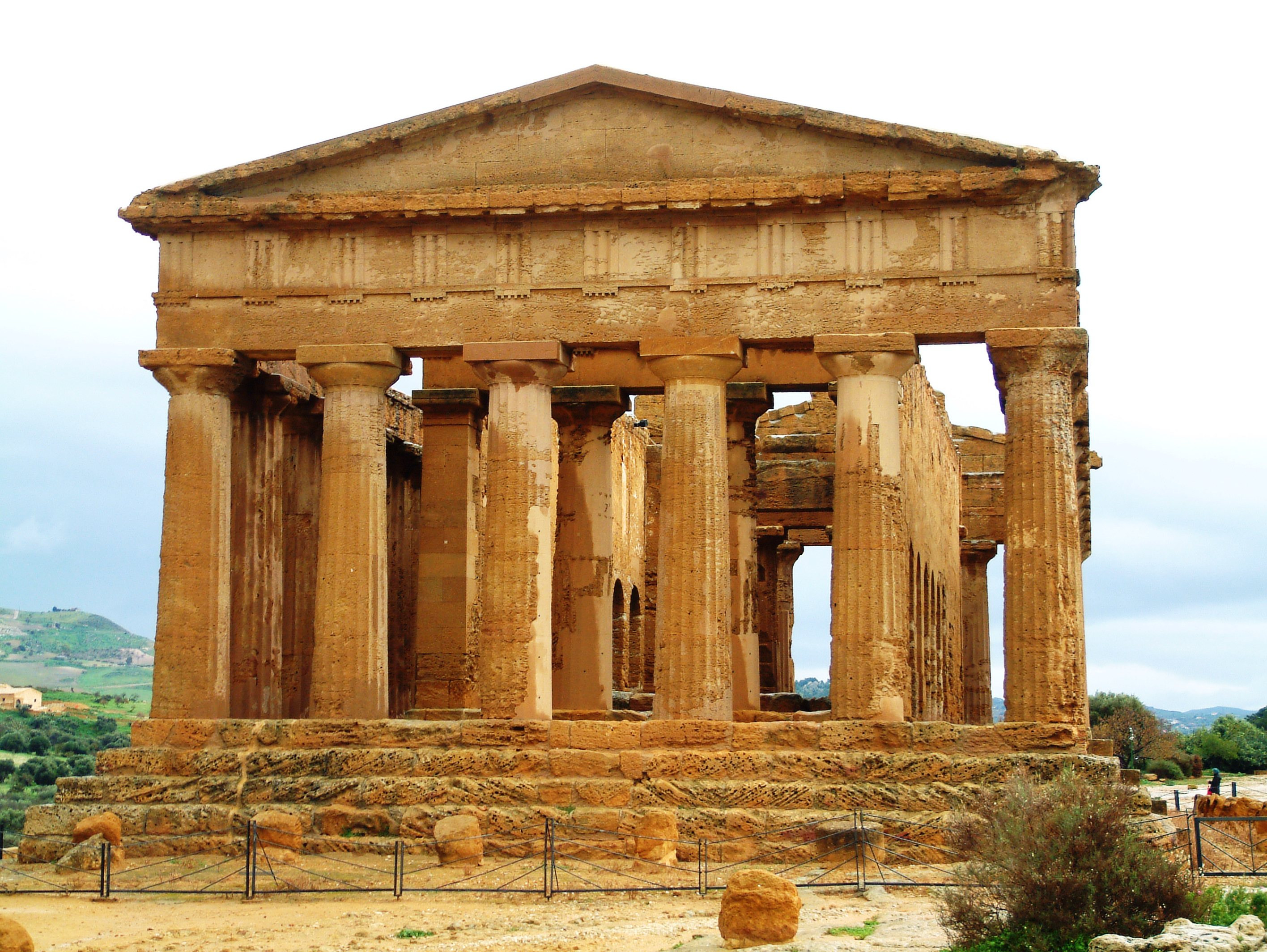 Temple of Concordia in Agrigento